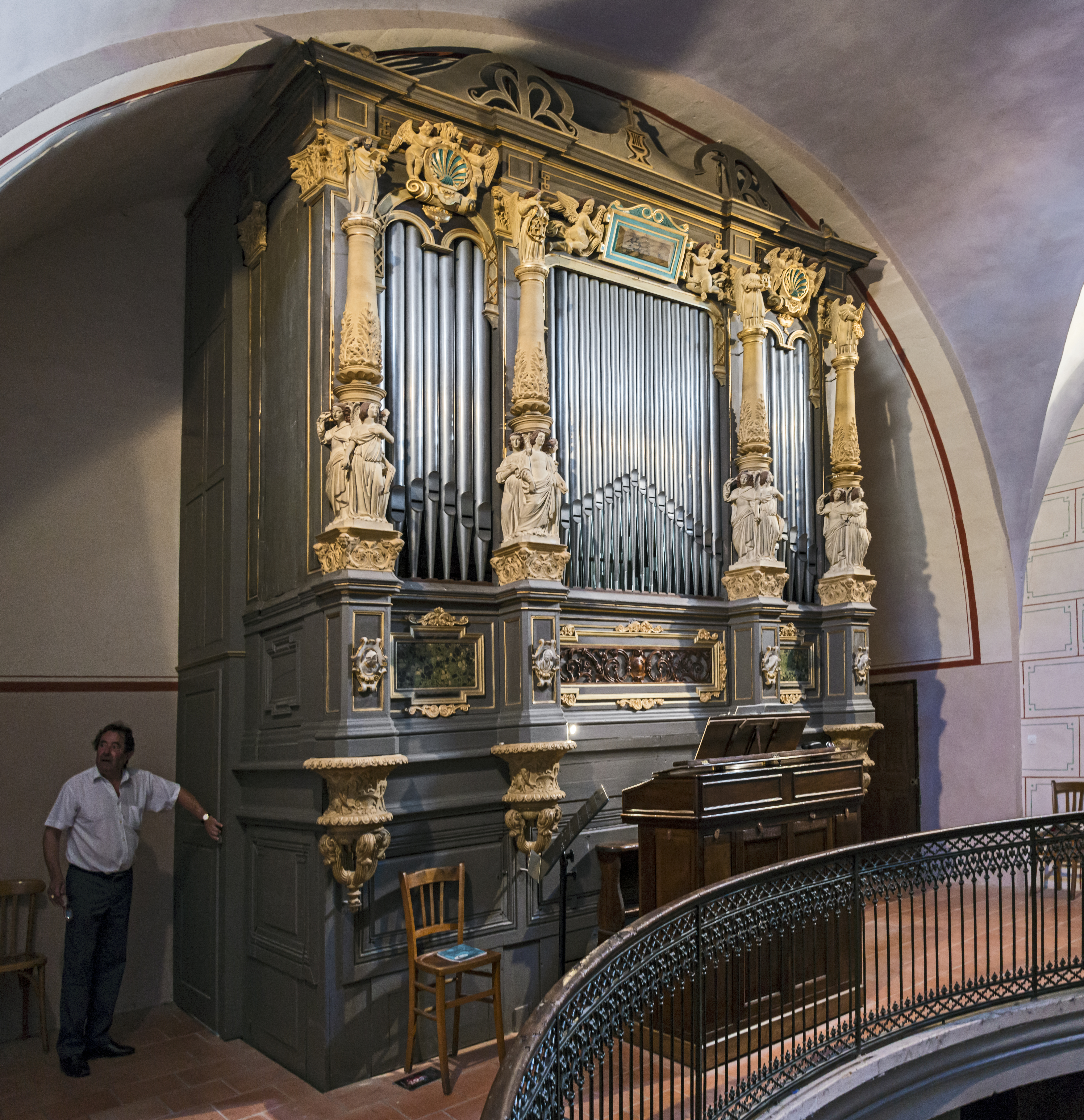 Bédarieux Hérault France - Organ of Chruche of St.Louis - Originally manufactured and put into service at the Saint Jerome church in Toulouse in 1840. In 1876 the organ was transferred by the factor Baptiste Puget to the church of Saint-Louis in Bédarieux. On this occasion, he adds a Gambe and a Celestial Voice to the Narrative keyboard. The Buffet with columns in one body is classified to historical monuments. It is a magnificent buffet, very original because of its terracotta decoration, glazed and polychromed. Use of marbles of various origins (Saint Pons) and treatment of ceramics by the Toulouse factory of Auguste Virebent (1792-1857). The architect to see Toulousain Urbain Vitry (1802-1863) was associated with this work of development. The ceramic parts of the decoration are attributed to Auguste Virebent. The console in oak and metallic elements, is separated from the sideboard and faces the choir. It has two manual keyboards (large organ, 10 games, expressive story, 8 games) and a German pedalboard. Instrumental part: The current instrumental part was built in 1843 by the Manufacture Cavaillé-Coll Père & Fils for the Saint-Jérôme church in Toulouse. The instrumental part includes two manual keyboards (54 and 37 notes) and a pedalboard (18 notes) including Bourdon 16 basses (borrowed but not connected) by Maurice Puget or Troseilles. This set testifies to a production of the House Cavaillé-Coll, first period (The minutes of the Commissiont Superior of Historic Monuments of 13 December 2001).